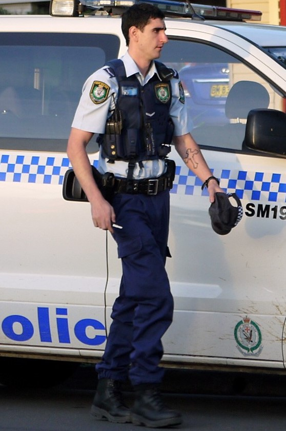 NSW Police officer